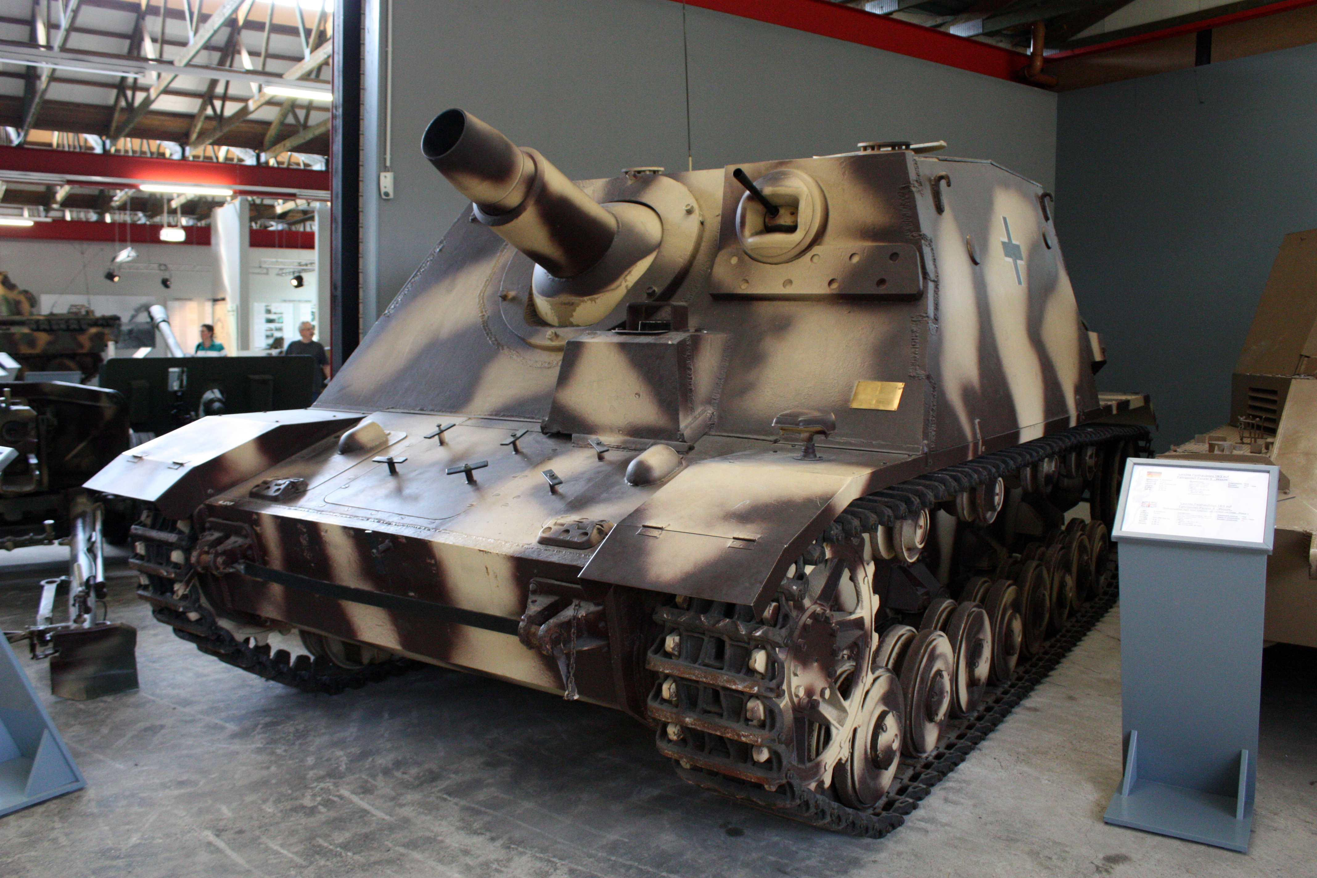 German Tank Museum